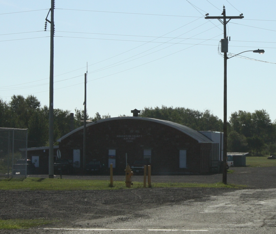 A building from a former Houghton County Airport, built in 1934, photographed in a park in Laurium, Michigan.